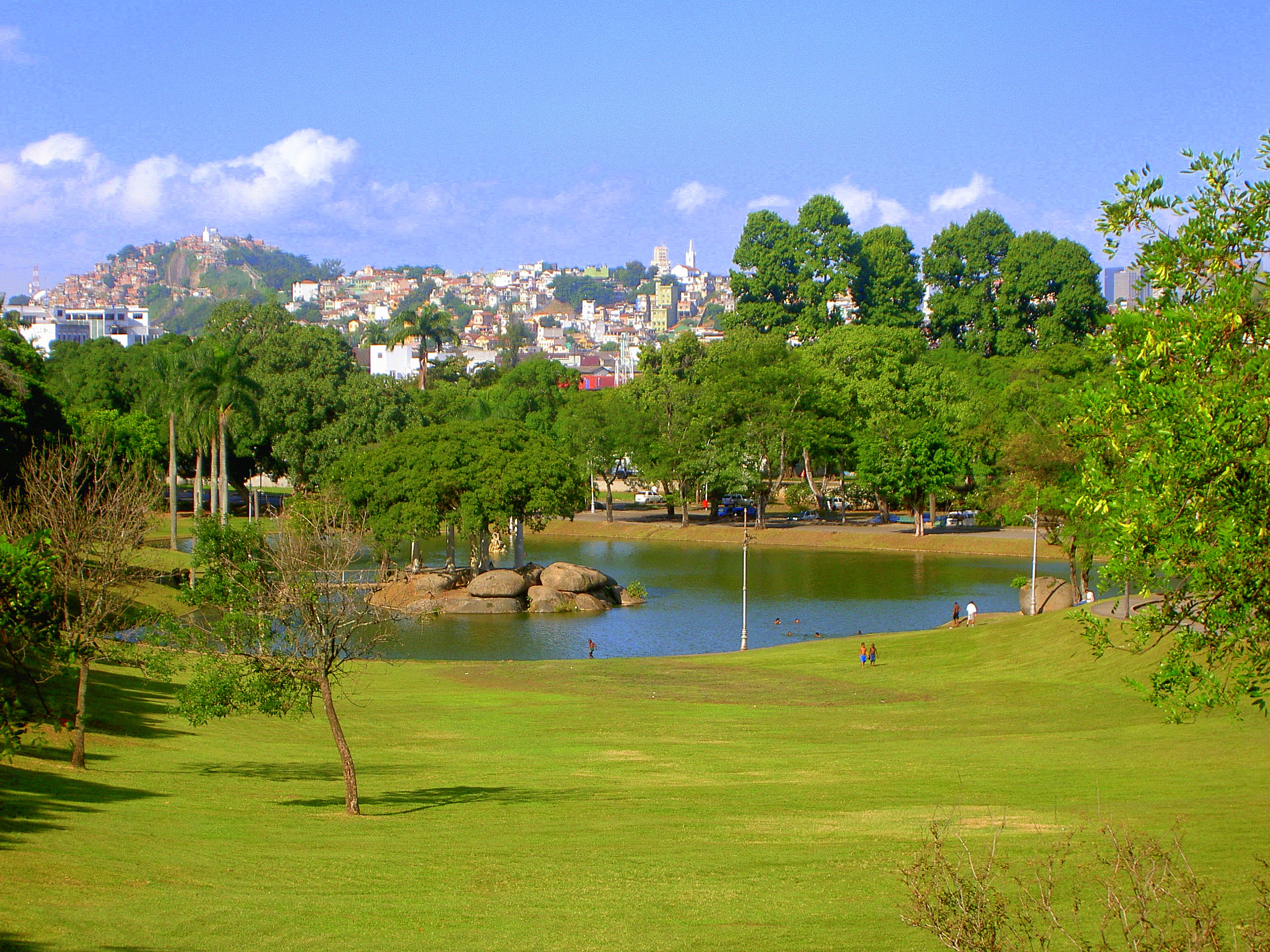 Quinta da Boa Vista, Rio de Janeiro - Brazil